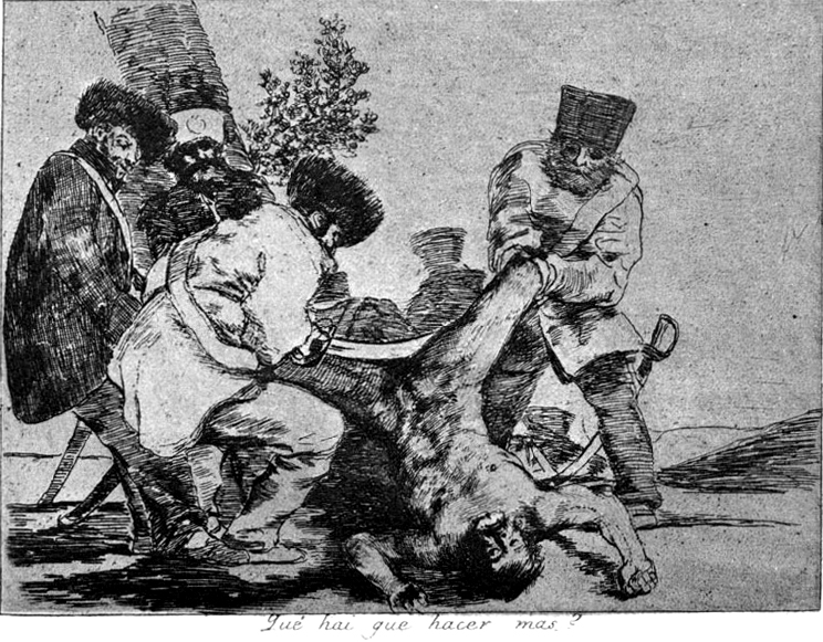 What more can one do? Source: PDF